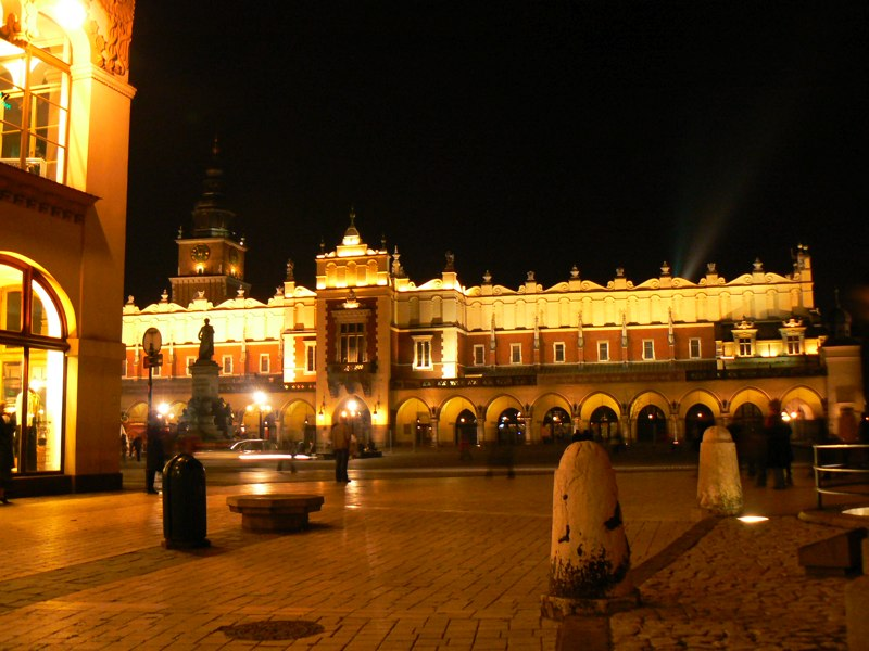 Sukiennice at night. Photograph by Michal Steckiw, 2007.